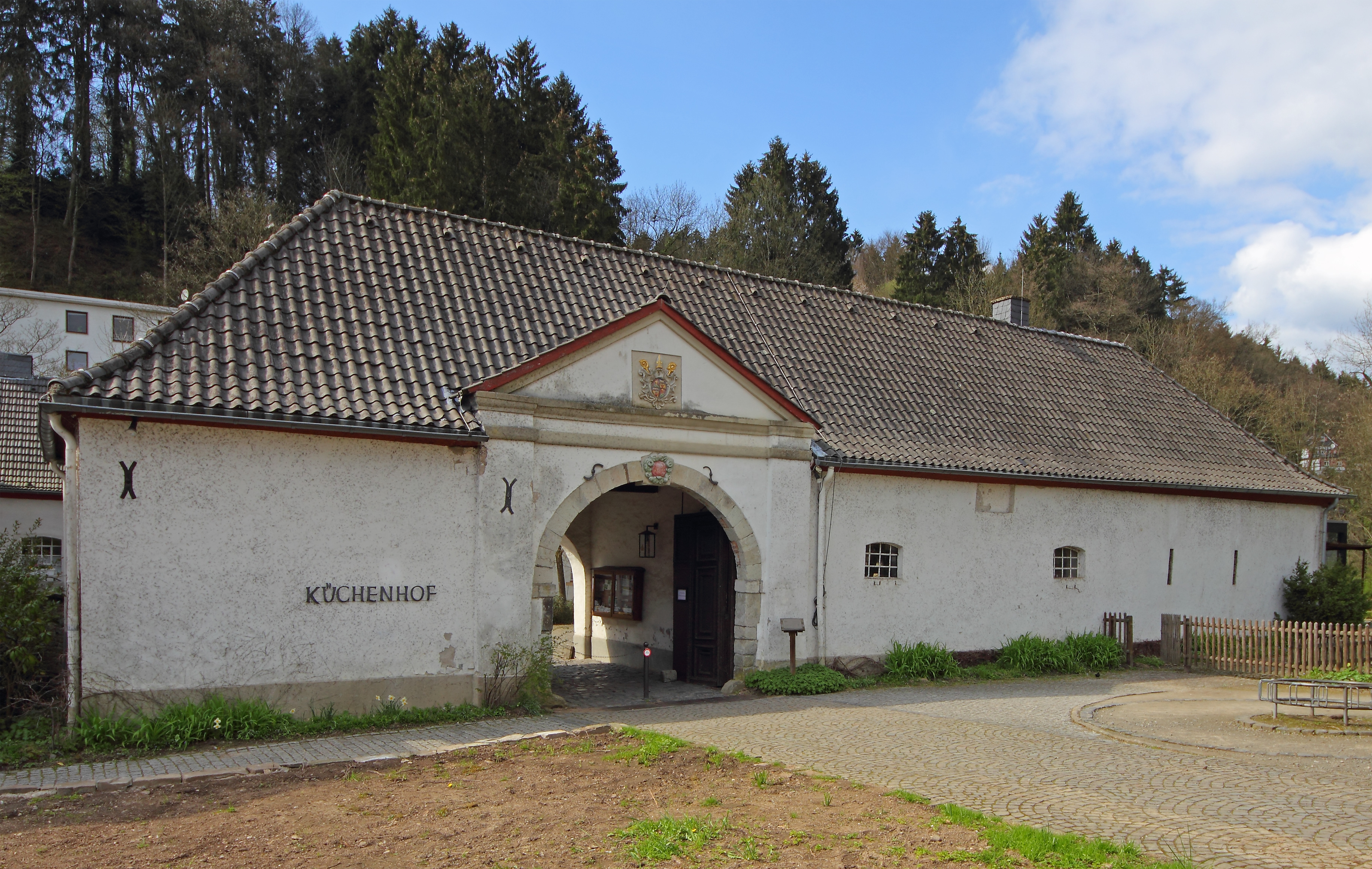 Odenthal-Altenberg (NRW, Germany); Kitchen Yard